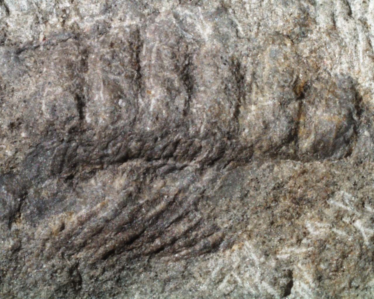 Photomicroscope image of the holotype of Pneumodesmus newmani from the Silurian of Cowie Harbour, Stonehaven, Aberdeenshire, Scotland, UK